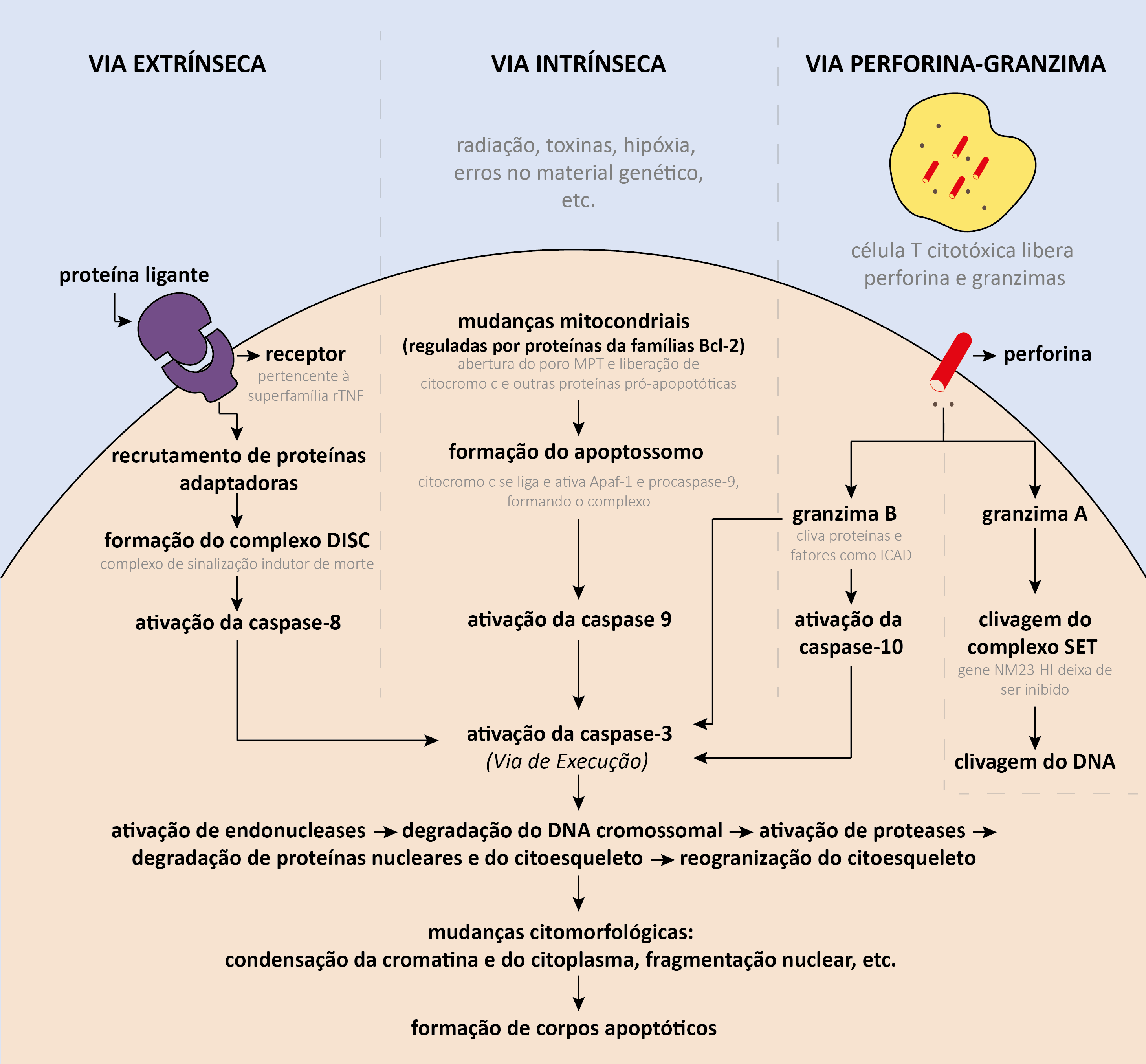 Apoptosis pathways. Inspired by Elmore, S. (2007).